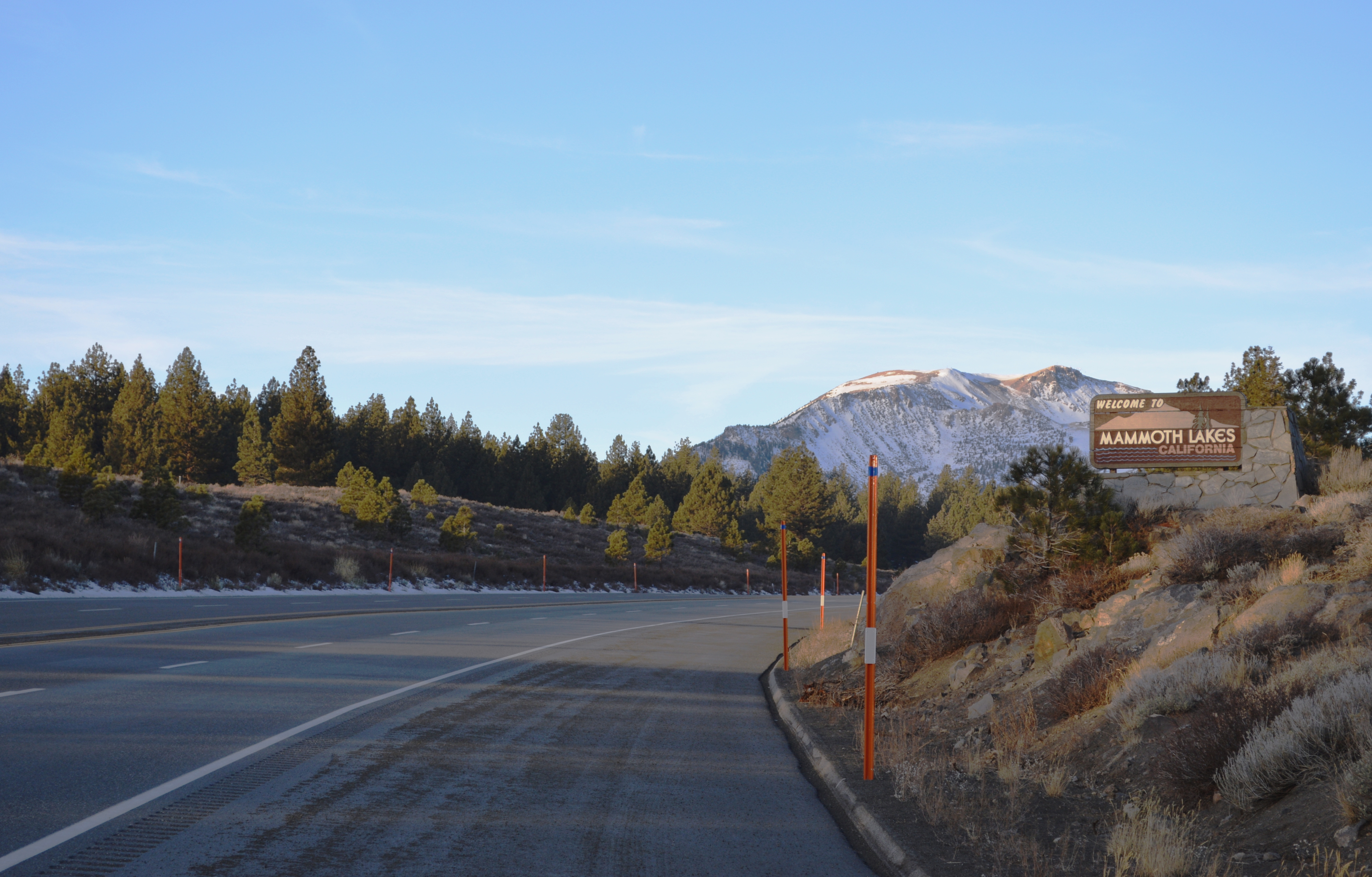 "Welcome to Mammoth Lakes, California" sign on California State Route 203, with Mammoth Mountain in the background.